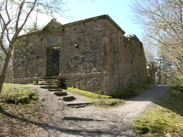 Dunstaffnage Chapel In the woods, a short walk from the castle.